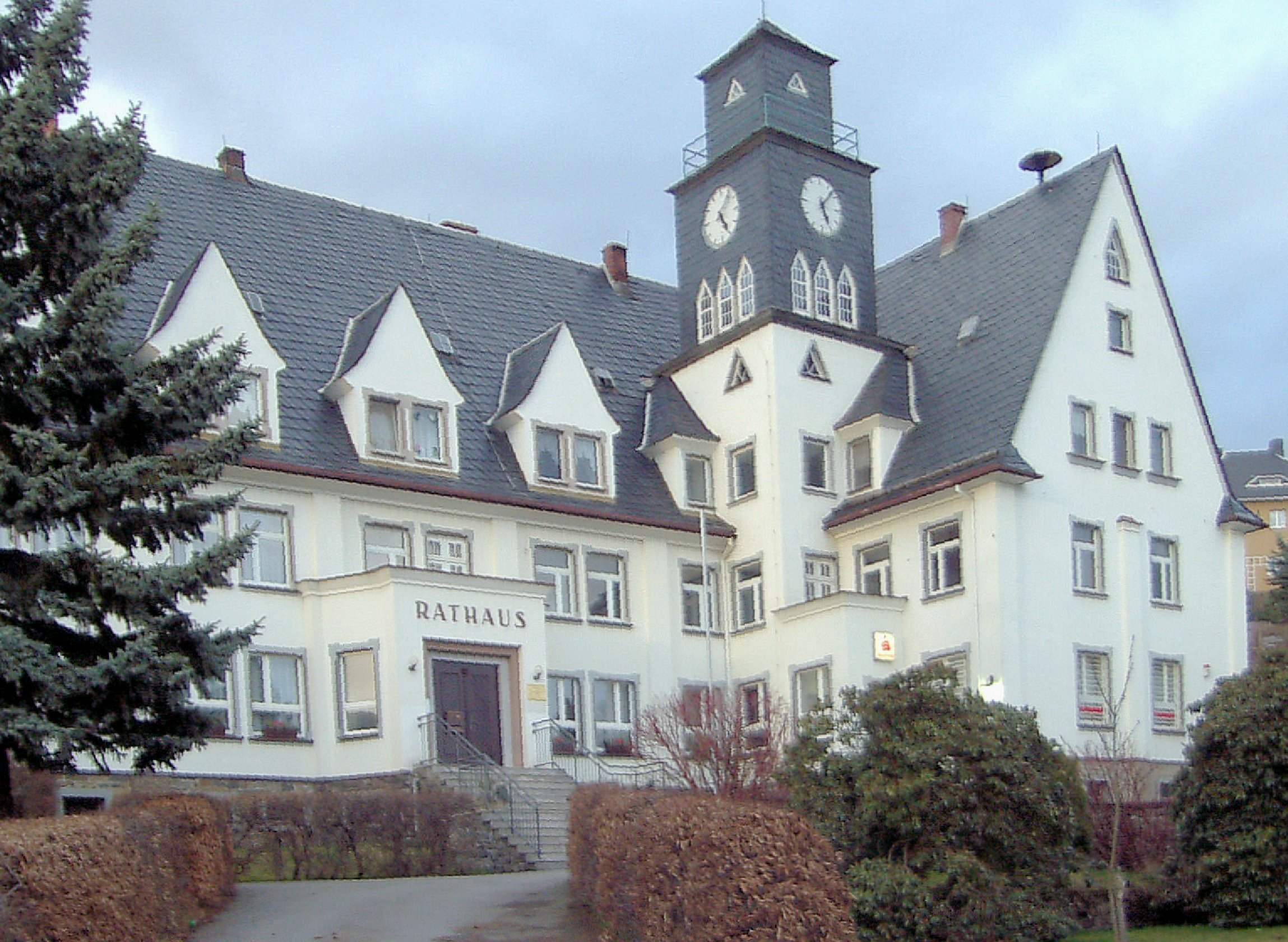 town hall of Borstendorf